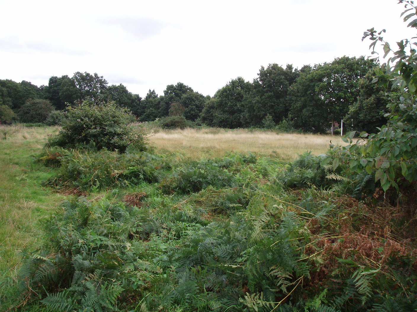 West Bergholt heathlands, Colchester, Essex, UK